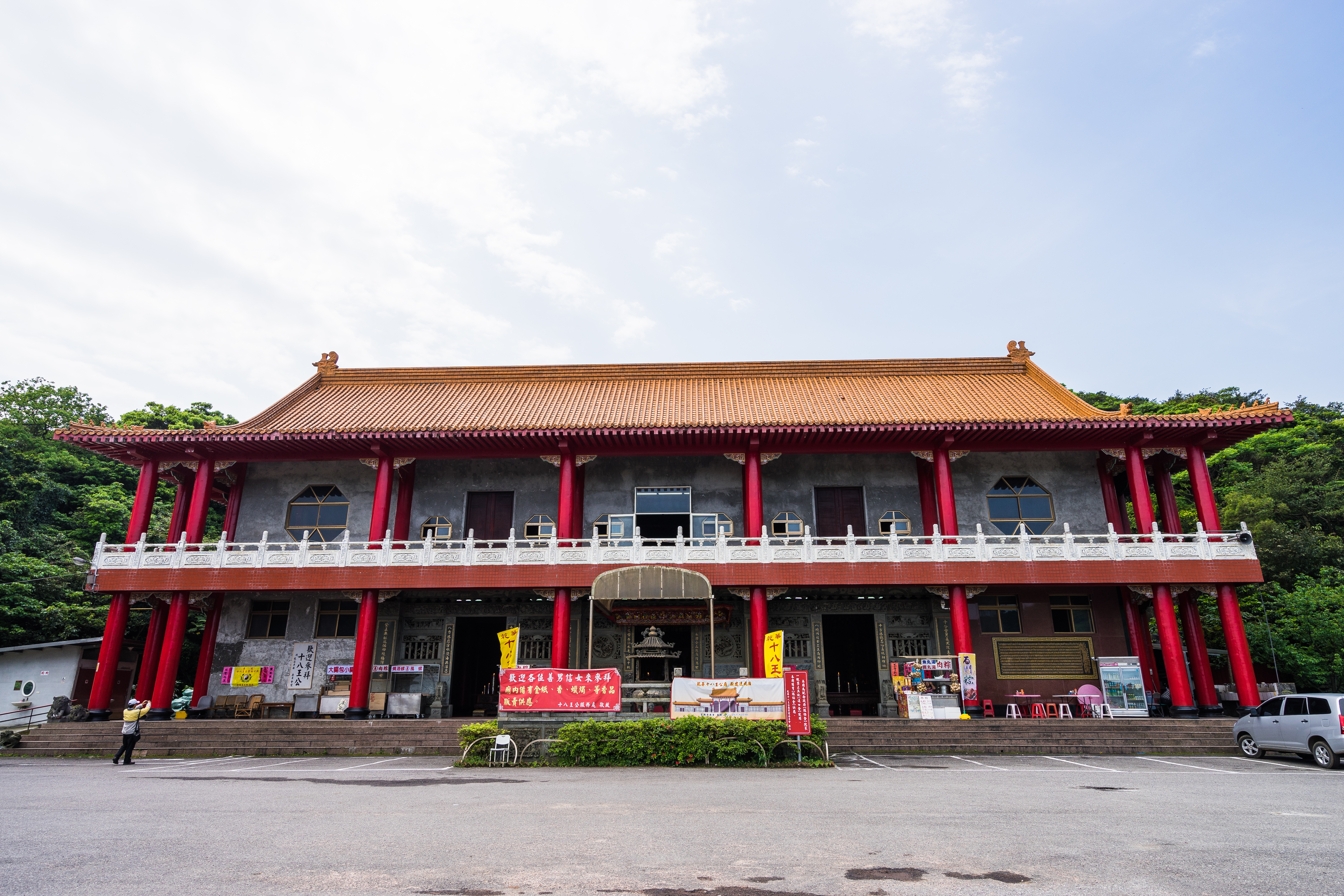 Eighteen Lords Temple